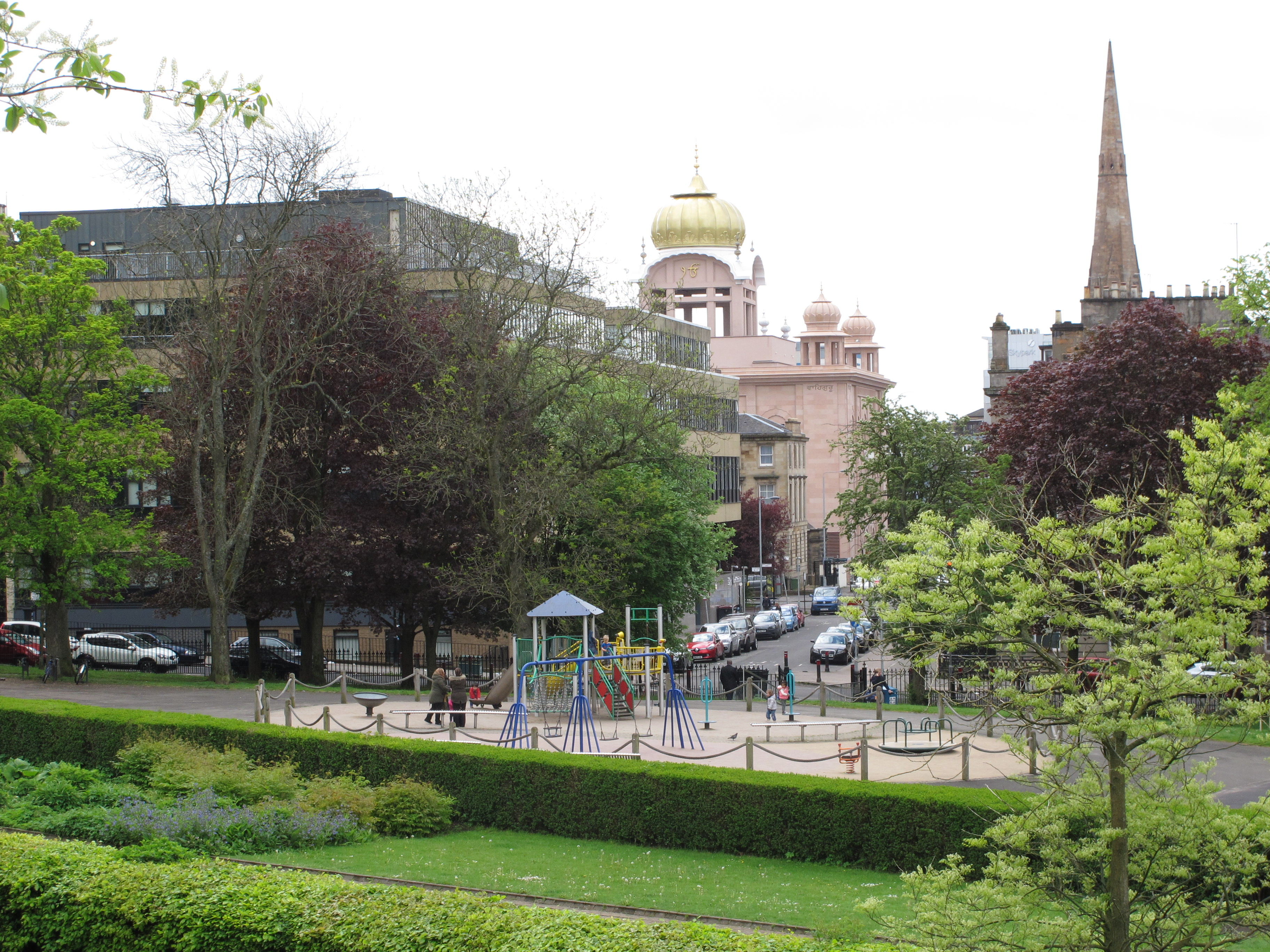 Kelvingrove Park playground, view to Sikh gurdwara